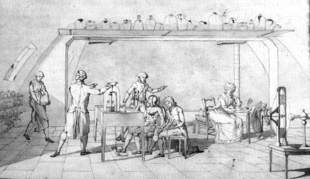 Experiments in human respiration. Drawing by Madame Lavoisier who shows herself taking notes at a nearby table.